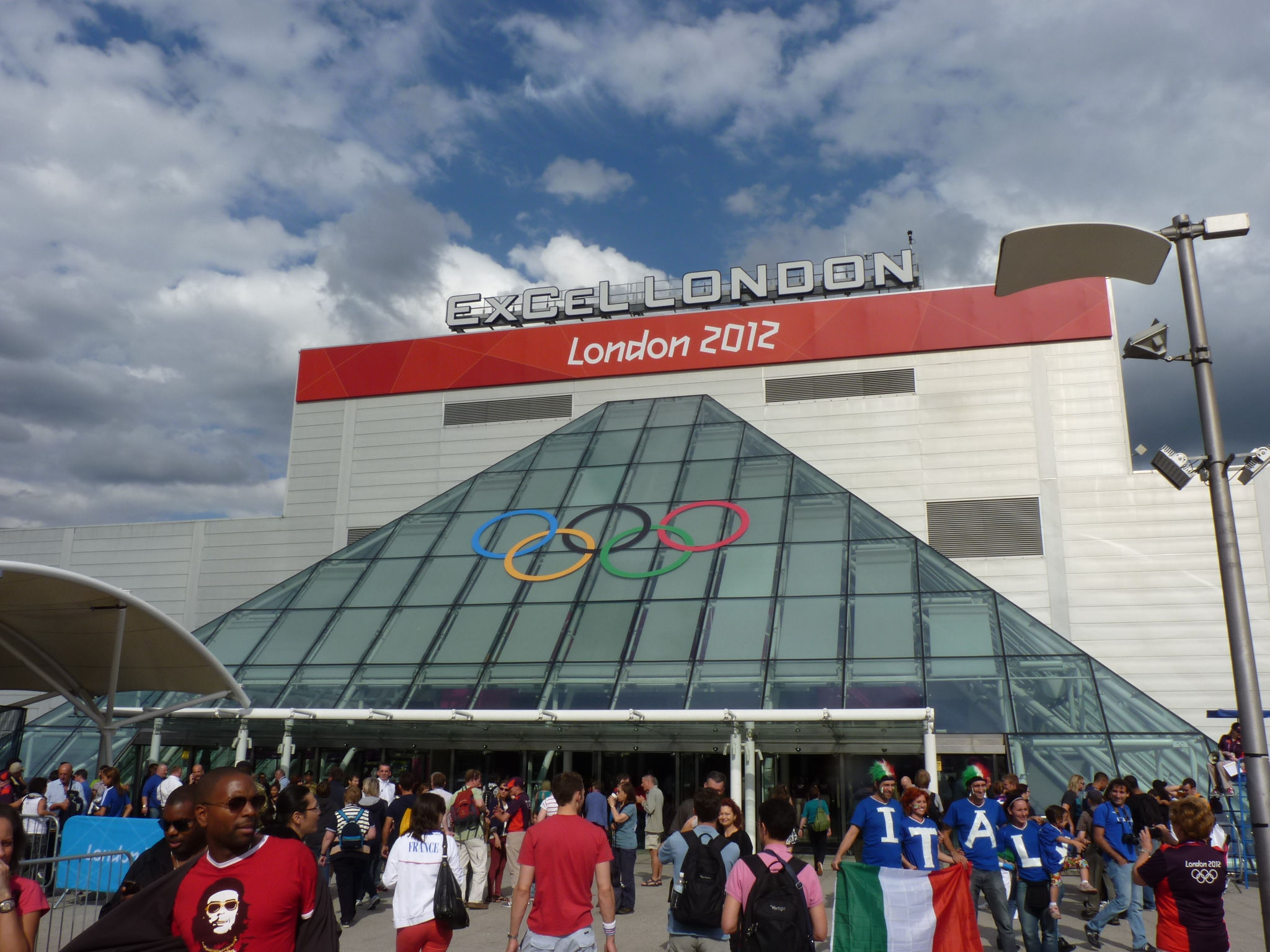 ExCel arena on 28 July 2012, London Olympic Games